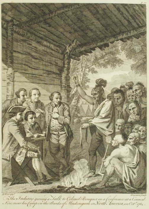 "The Indians giving a talk to Colonel Bouquet in a conference at a council fire, near his camp on the banks of Muskingum in North America in Oct. 1764"